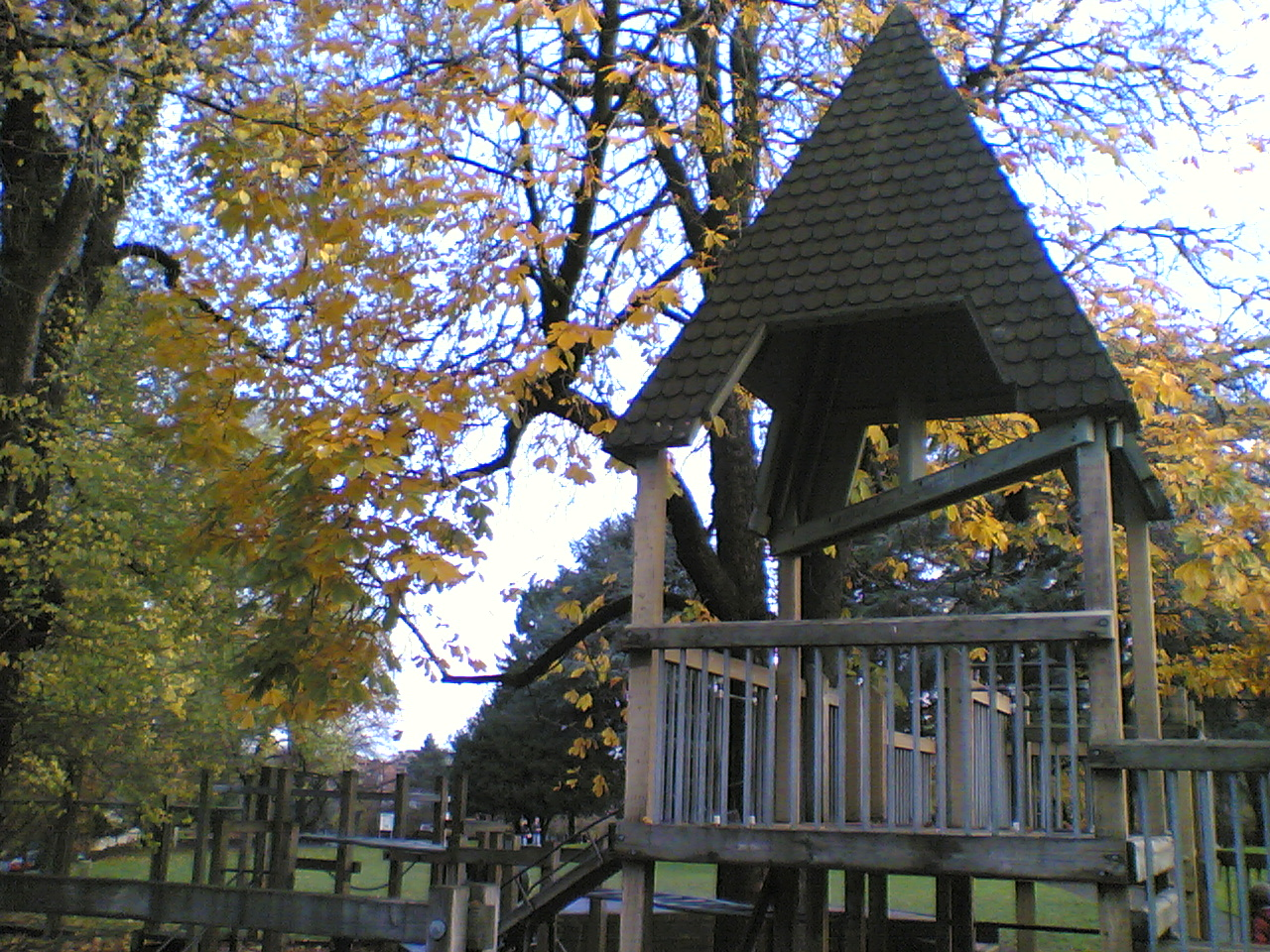 Playground at Couch Park in northwest Portland, Oregon in 2006